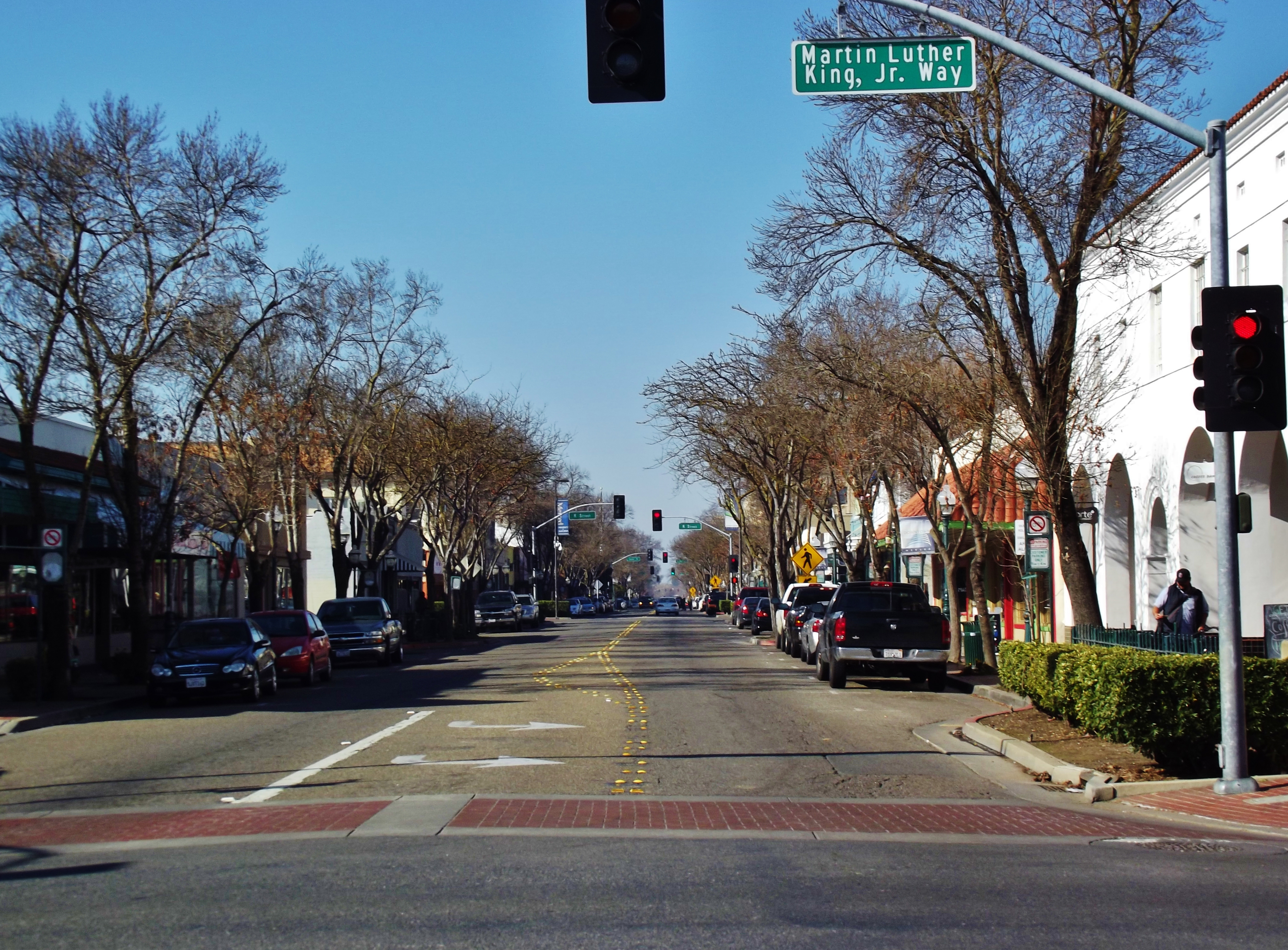 Main St. and Martin Luther King Jr. Way, in Merced California.